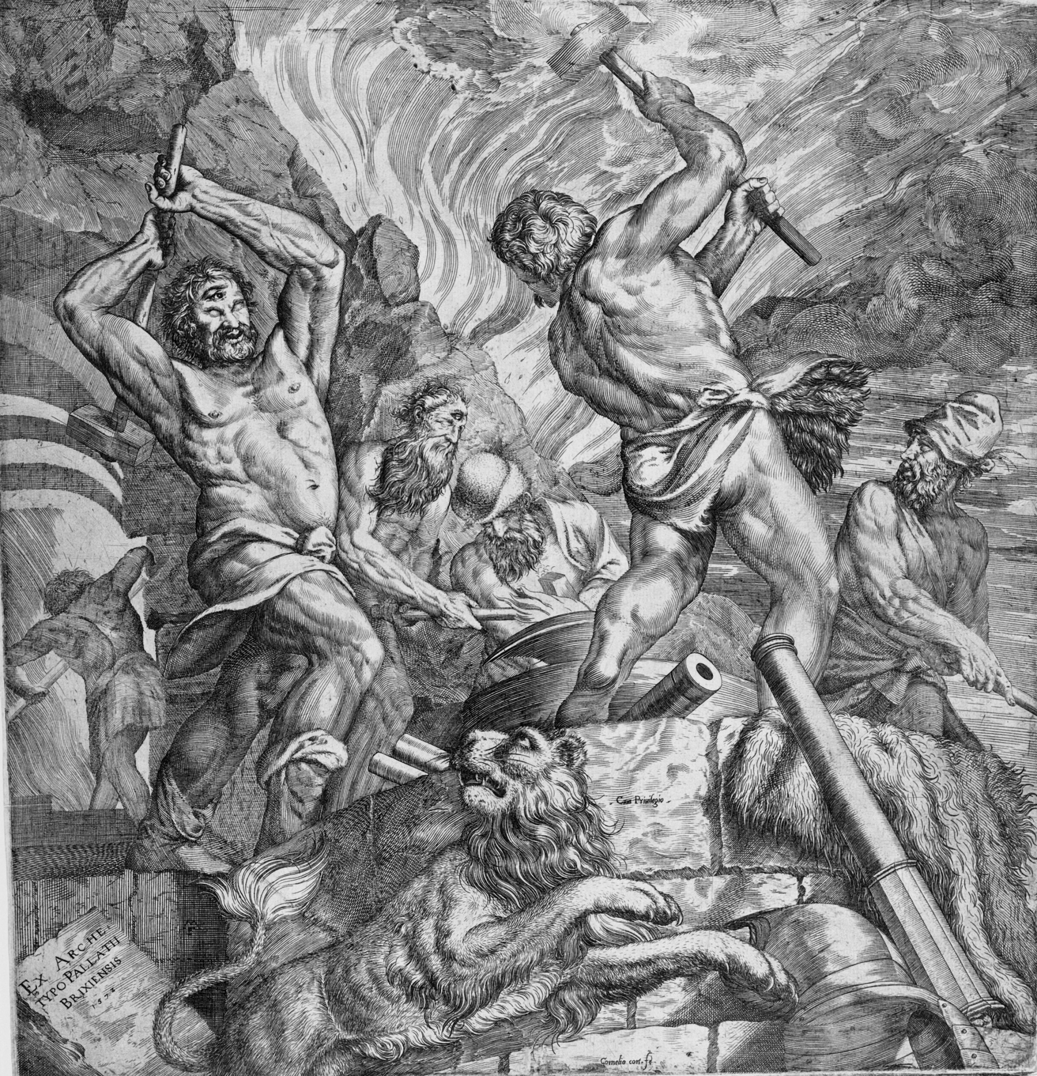 Holland, 1572 Prints; engravings Engraving Mary Stansbury Ruiz Bequest (M.88.91.96) Prints and Drawings